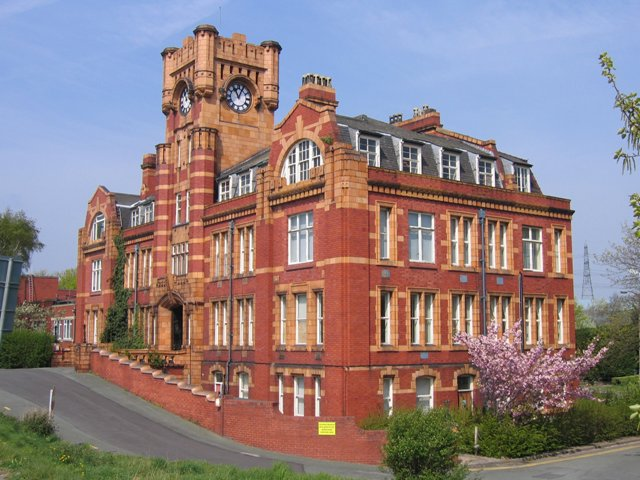 The John Summers Building by the River Dee The John Summers steel works at Shotton was built on re-claimed land towards the end of the 19th century, but the house/office building shown here is dated 1907. It is built just behind the flood bank of the River Dee, facing across the river to where many of the steel workers would have lived. It can be seen in situ from across the river in 404738. The photo is taken from the cycleway that runs along the river bank all the way to Chester.